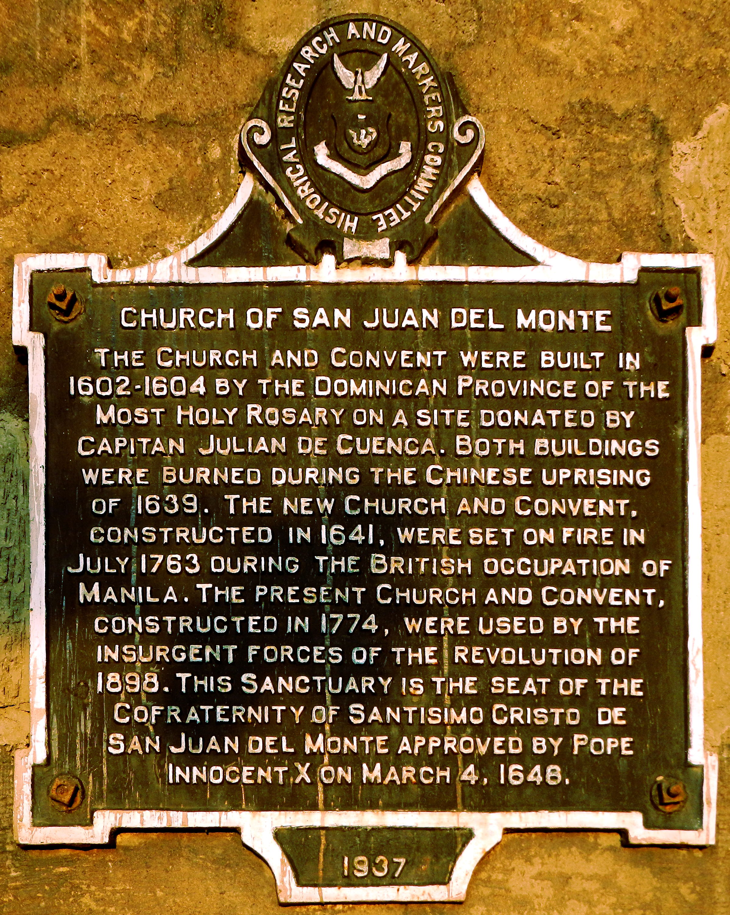 Historical marker installed by the Historical Research and Markers Committee for Santuario del Santo Cristo.